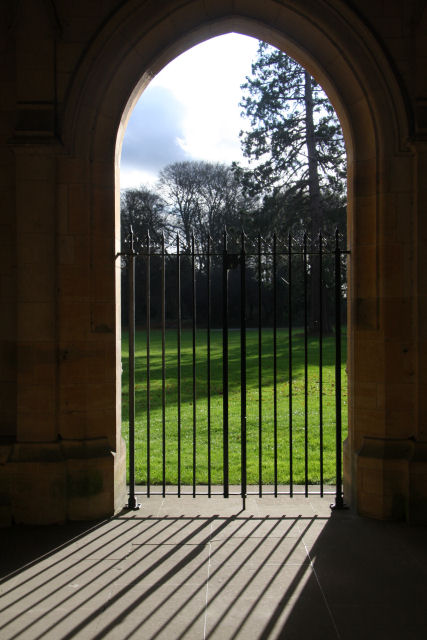 Gate leading to grounds of Elveden Hall This locked gate, under the bell-tower at the end of the cloister at the church of St Andrew and St Patrick, Elveden, prevents the hoi polloi from venturing into the very private grounds of Elveden Hall.